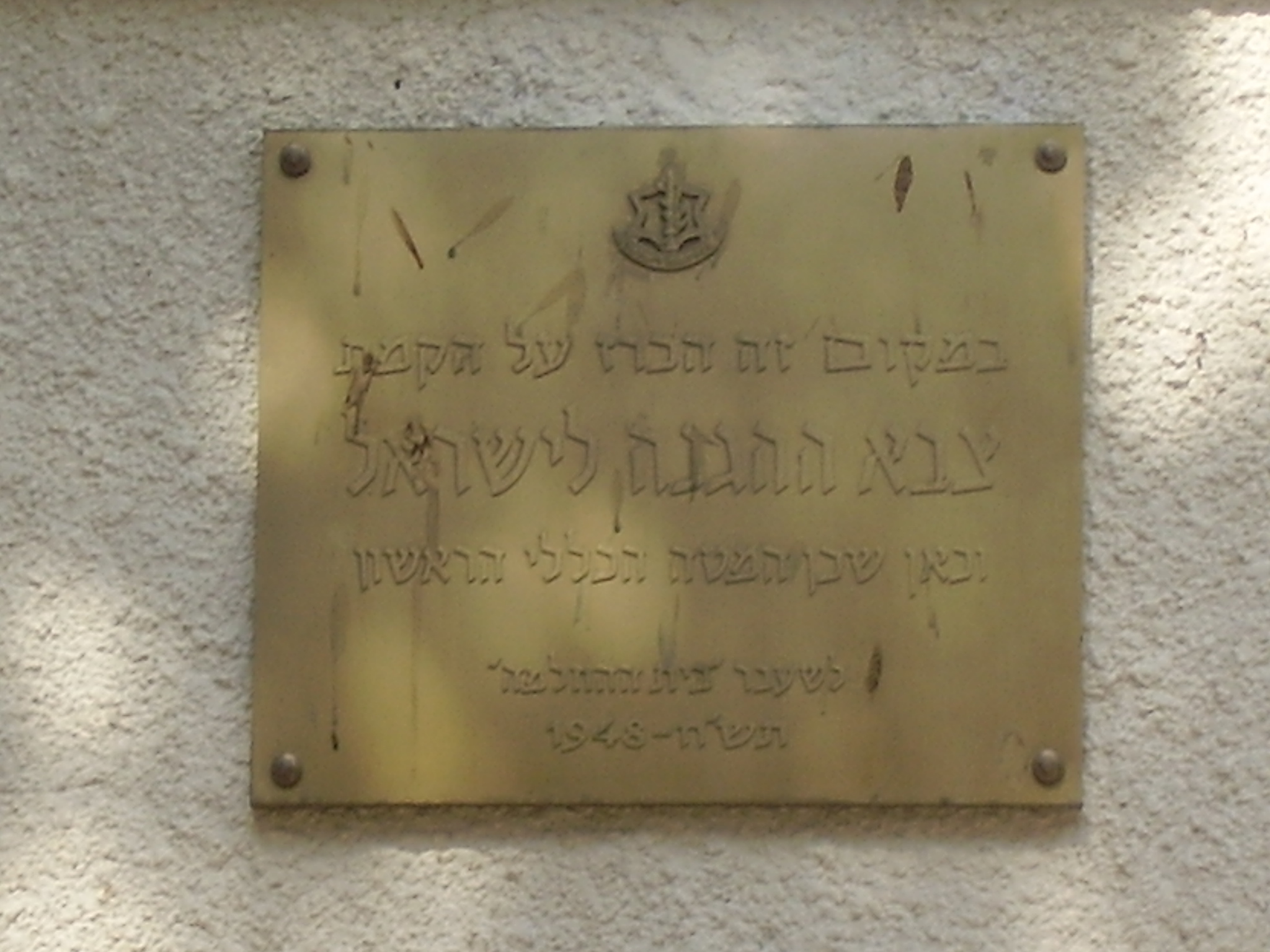 memorial plate to the first ganeral staff in ramat gan